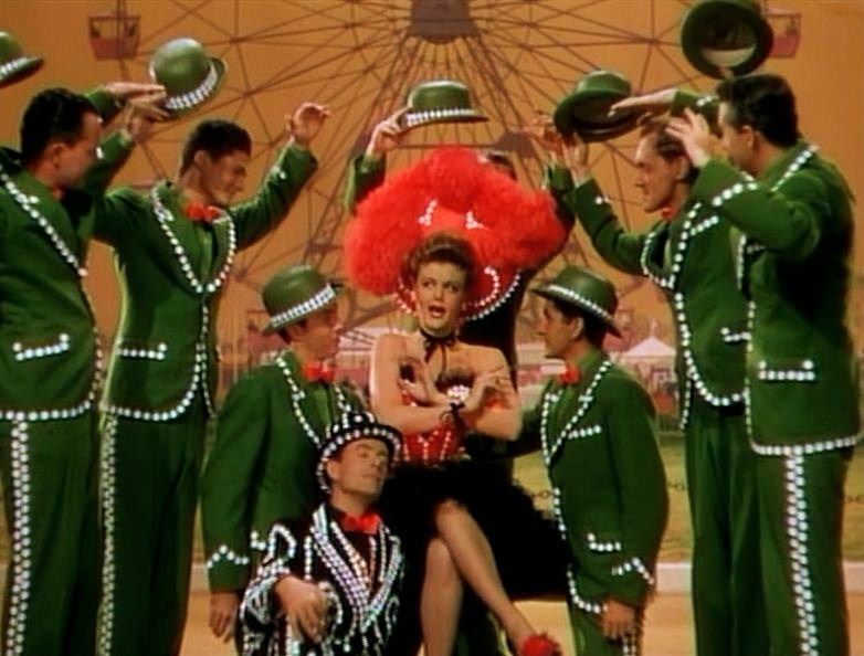 Angela Lansbury in Till the Clouds Roll By - cropped screenshot. She is singing "How'd You Like To Spoon With Me?".